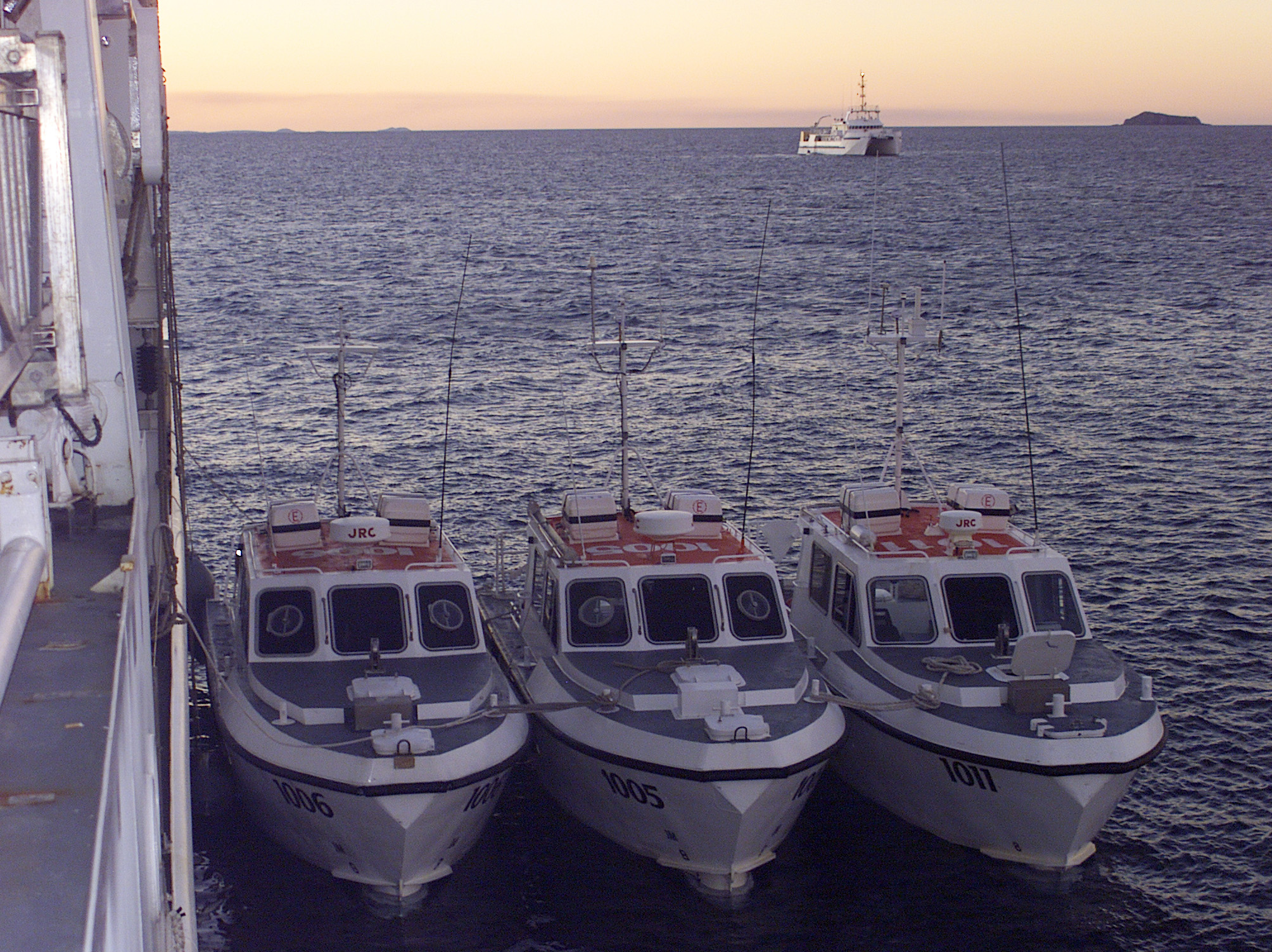 Department of Defense caption: Three survey motorboats line up beside the HMAS Leeuwin just before going out for the beach land survey during Exercise Tandem Thrust 2001. Exercise Tandem Thrust 2001 is a combined United States and Australian military training exercise. This biannual exercise is being held in the vicinity of Shoalwater Bay training area, Queensland, Australia. More than 27,000 Soldiers, Sailors, Airmen and Marines are participating, with Canadian units taking part as opposing forces. The purpose of Exercise Tandem Thrust is to train for crisis action planning and execution of contingency response operations. Additional information: The vessels depicted are Fantome class survey motor launches, rafted up to the side of their mothership, the survey ship HMAS Leeuwin. Another survey ship, a Paluma class vessel, is located in the background. At the time of this photo, RAN survey vessels were painted white, as opposed to the naval grey of the rest of the fleet (the survey vessels would be repainted grey later in their careers).